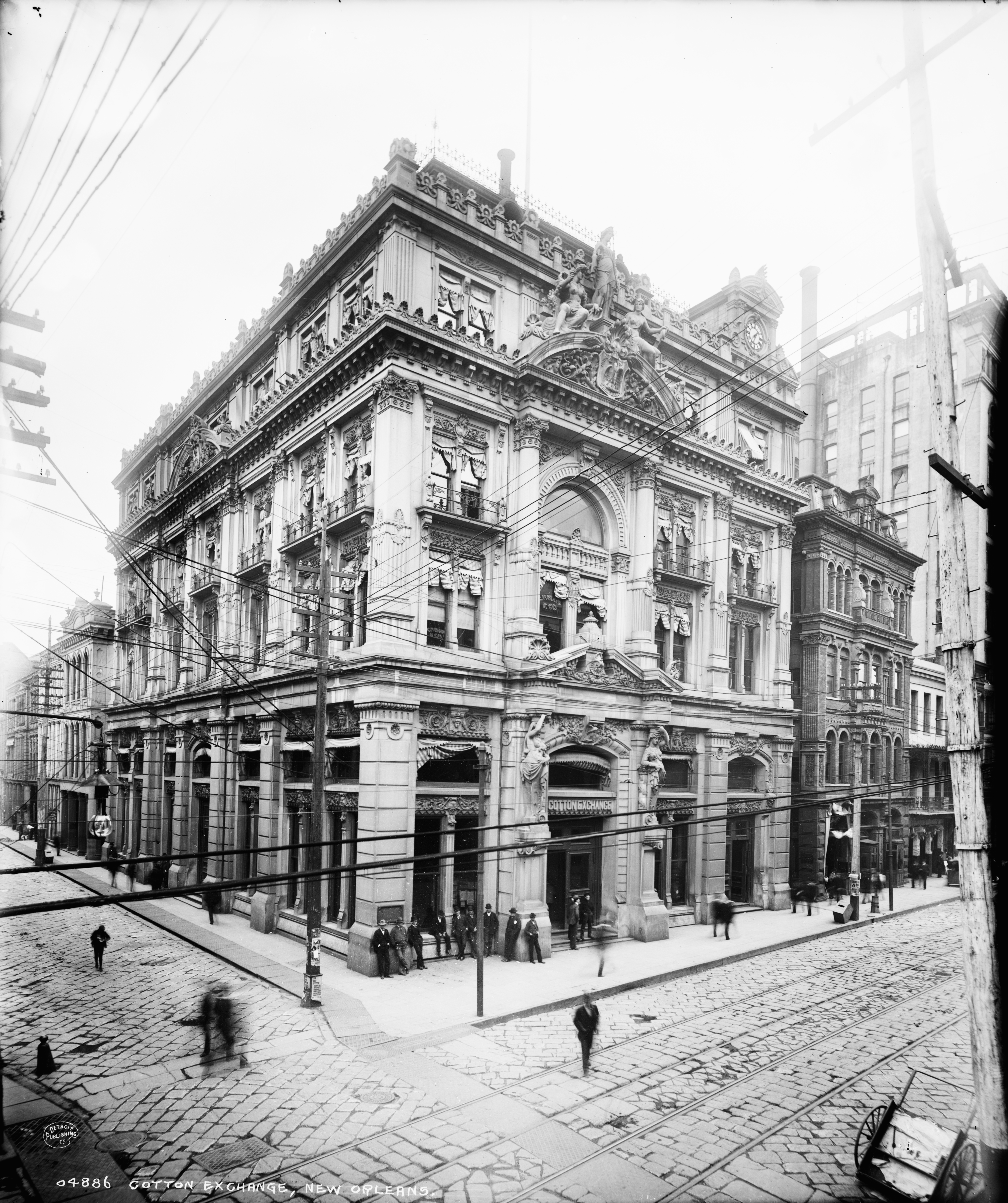 Cotton Exchange, New Orleans, La. Shows the old Cotton Exchange building at the downtown lake corner of Carondelet and Gravier Streets, New Orleans that was demolished before the construction of the present building in 1920. To right the Denegre Building and Hennan Building are seen.